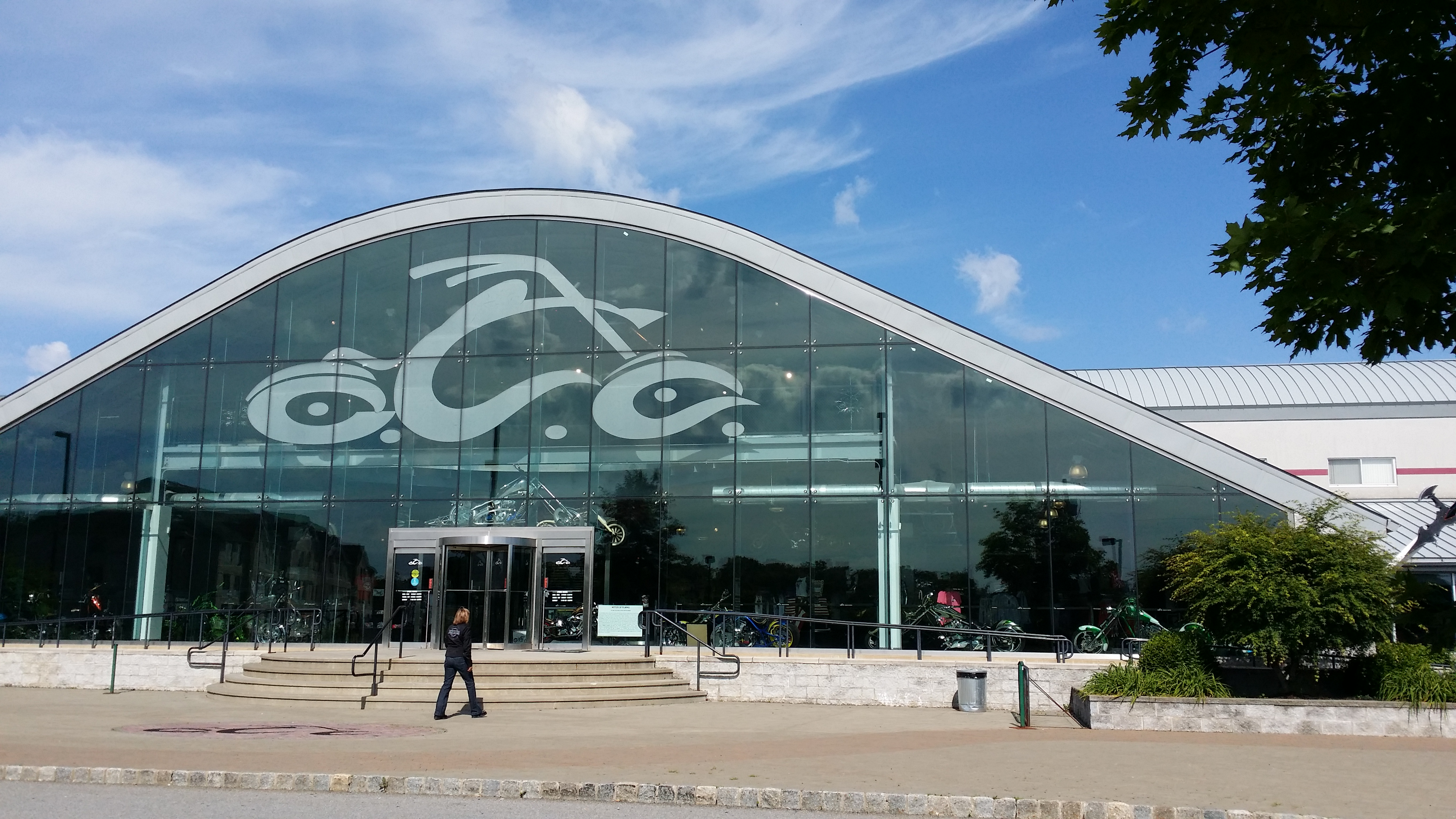 Newburgh, NY, USA